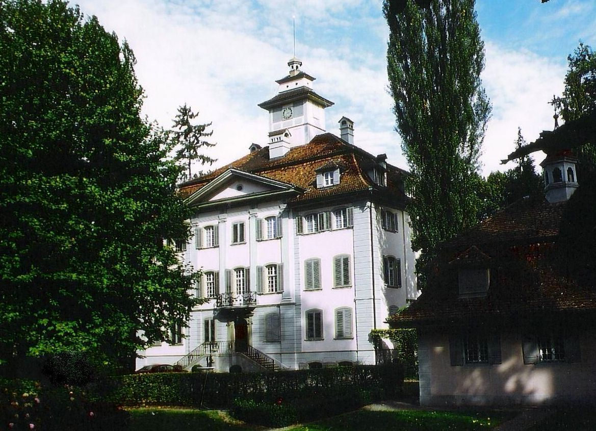 Himmelrich